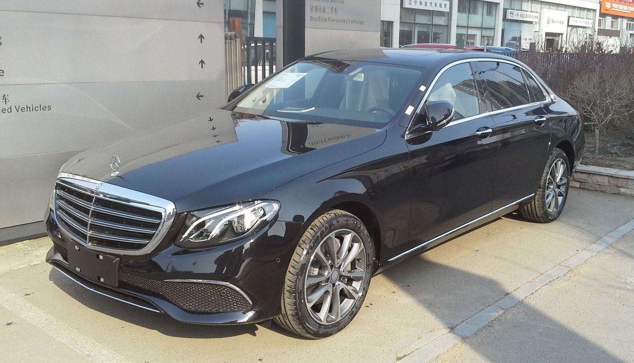 Mercedes-Benz E-Class V213 photographed in Shenyang, Liaoning province, China.